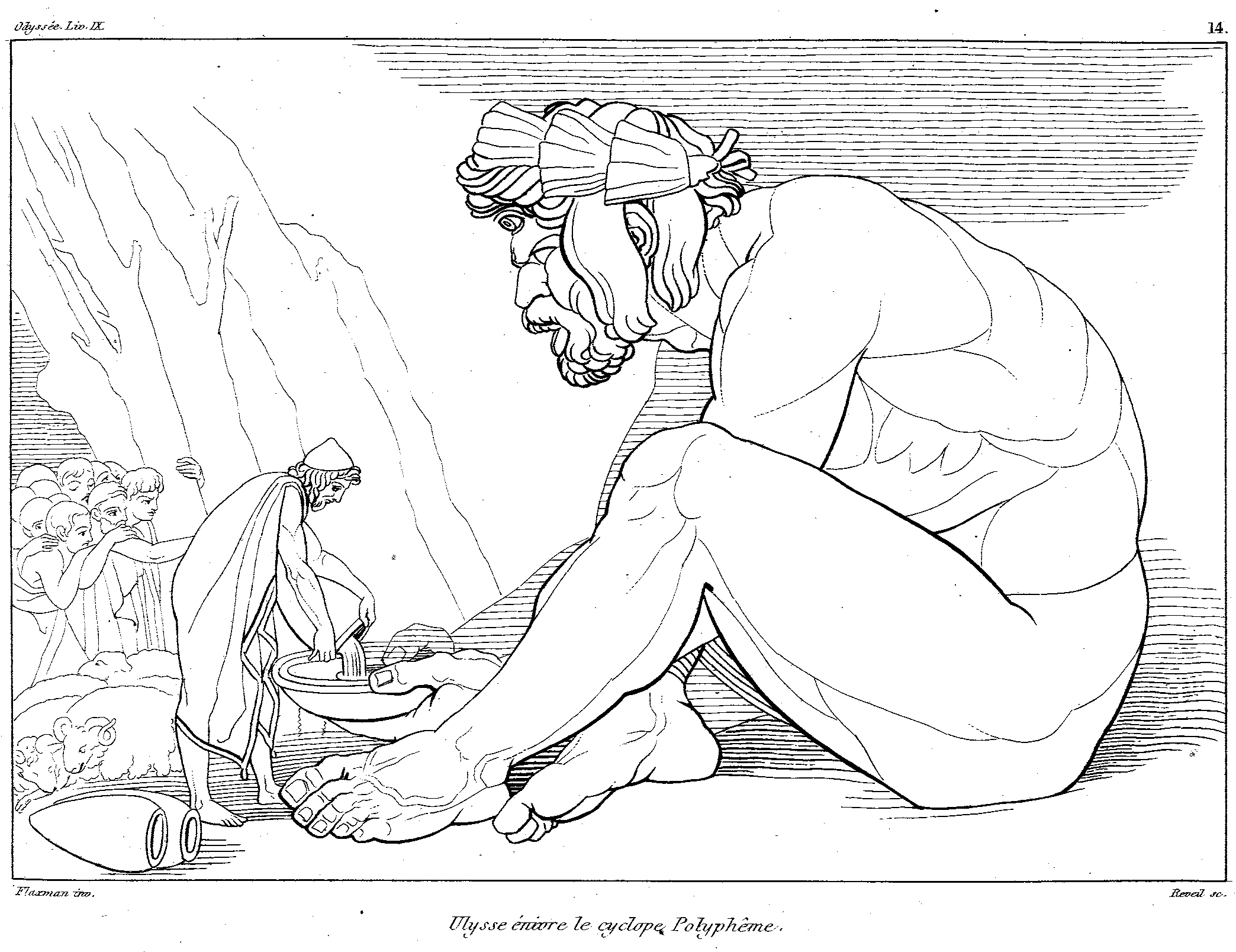 Illustrations of Odyssey